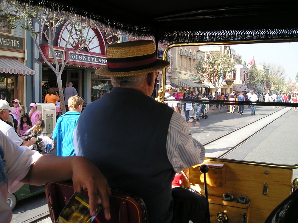 Disneyland's Main Street, U.S.A. as seen from a 1903-era automobile. Taken by Ellen Levy Finch (User:Elf) Feb 2006.